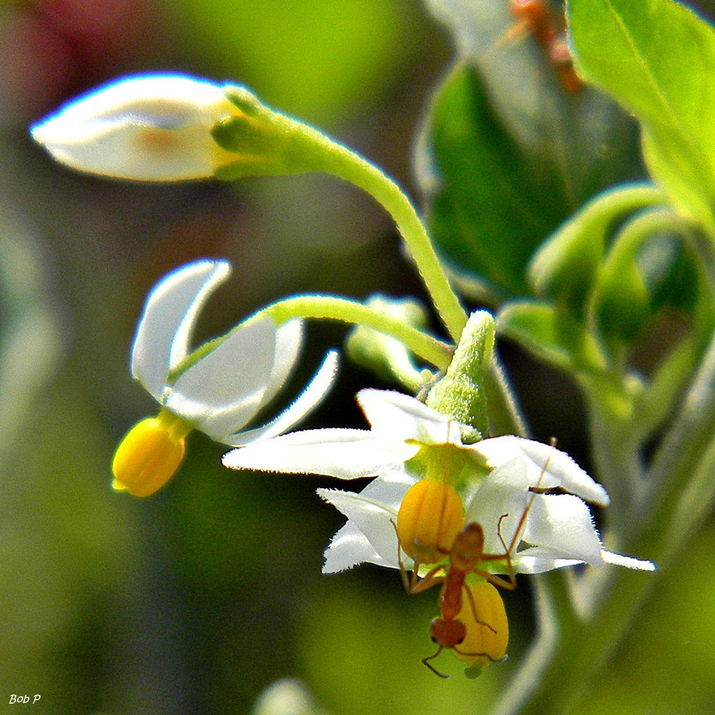 "Night" and "shade" are words in stark contrast to the oppressive heat and scorching glare of Juno Dunes in July. I've wandered in that heat since my toddler days but really felt it yesterday! My friend Pyramid Ant readily agreed to pose in the shade of this tiny nightshade blossom to provide scale. The nightshade contains several toxic alkaloids.